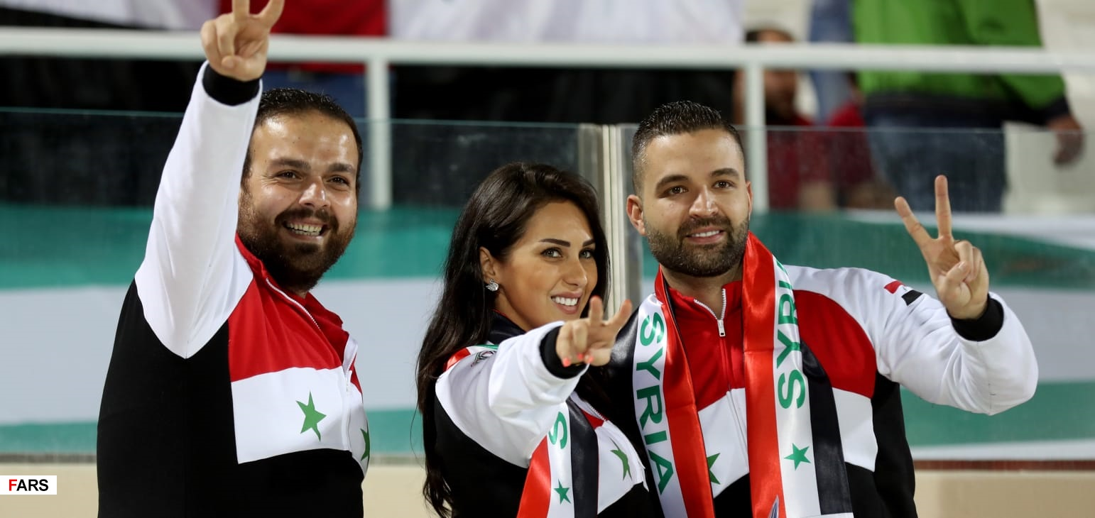 Syria & Palestine Group B match, 2019 AFC Asian Cup